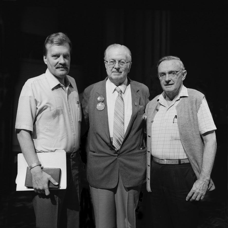 David Dalton, Maurice Riley, and Franz Zeyringer, three important viola historians at International Viola Congress XV, Ann Arbor, Michigan.